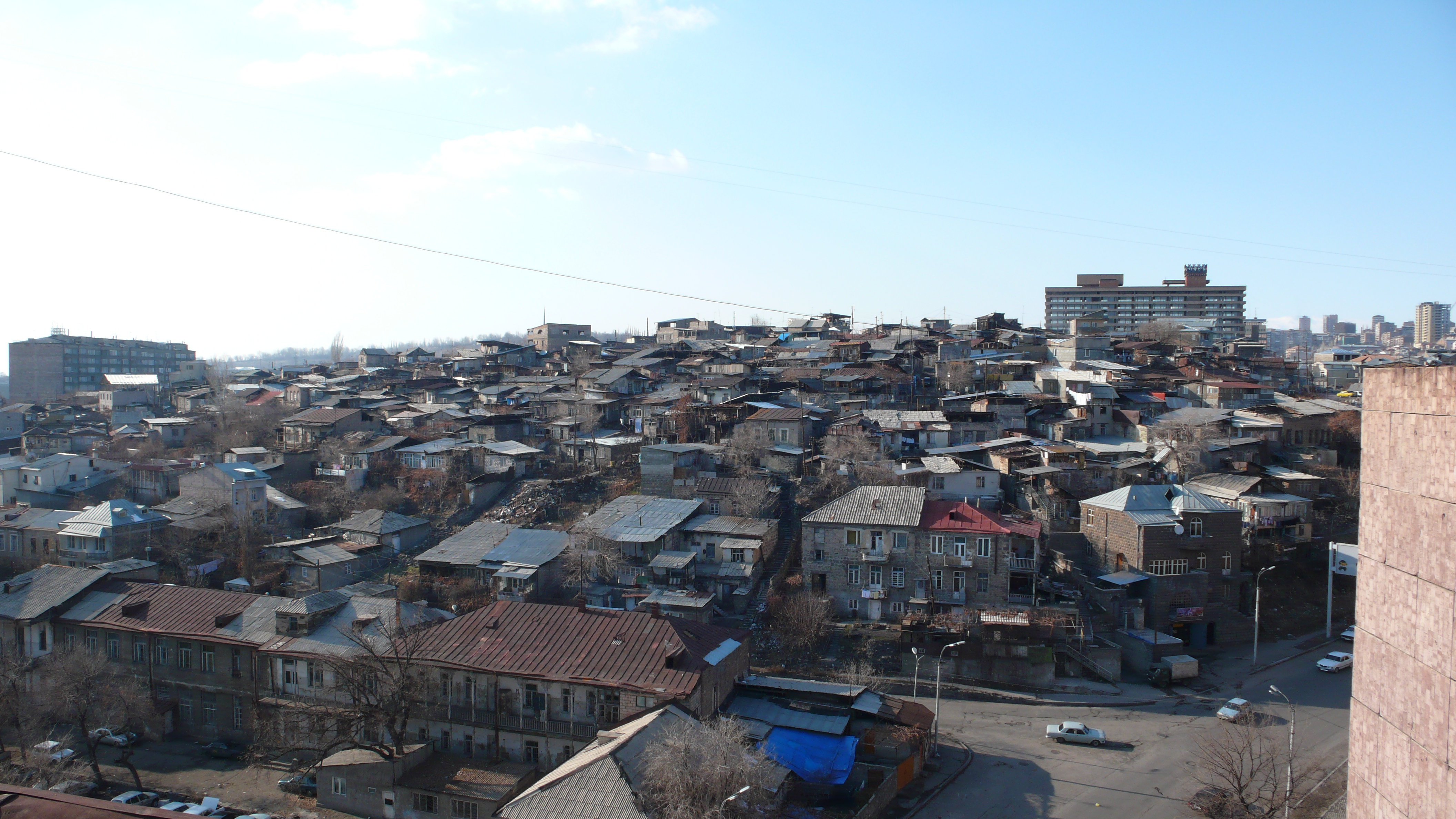 Kond quarter of Yerevan cuty, Armenia